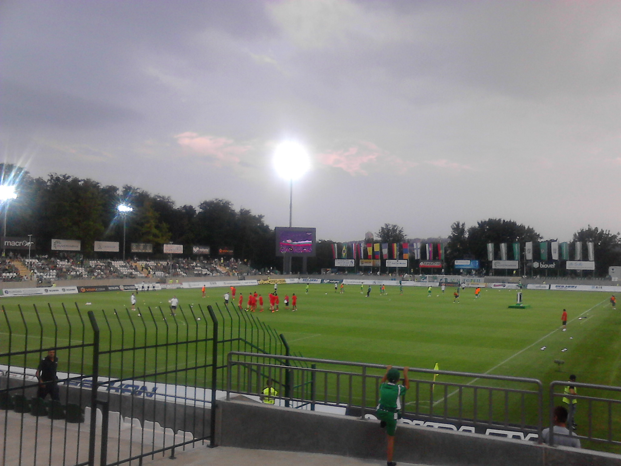 Before the match Ludogorets-Cska Sofia in Ludogorets Arena.